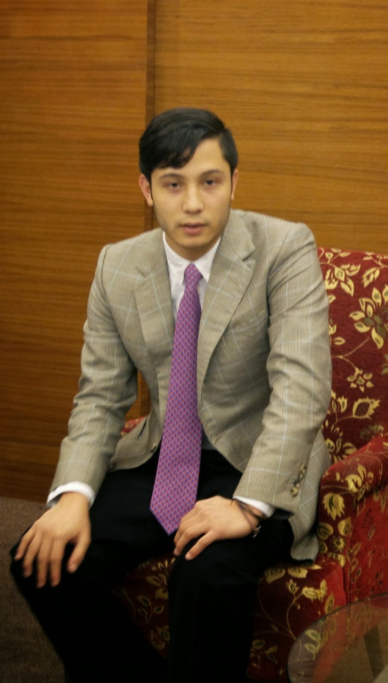 TFMS Pahang